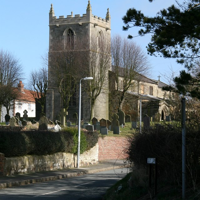 Lily Lane and St. Oswald's Parish Church, Flamborough, East Riding of Yorkshire, England. The photograph, taken from its junction with West Street, shows the western end of Lily Lane. The church is the local parish church of Flamborough dedicated to St. Oswald the patron saint of fishermen. For a photograph of the eastern end of Lily Lane, click here: . - - - See also this photograph (1953) by Dr Neil Clifton: 1317120.